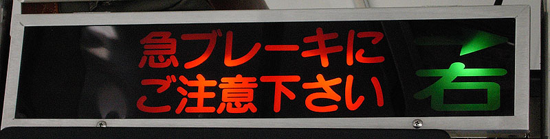 Turning lights in public buses in Japan